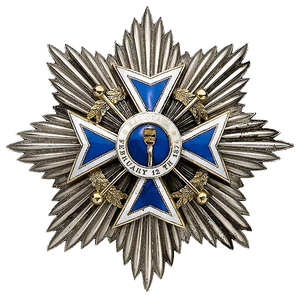 Badge of a grand officer of the Order of Kalakaua